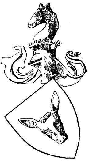 Coat of arms Półkozic - the oldest depiction with mantling